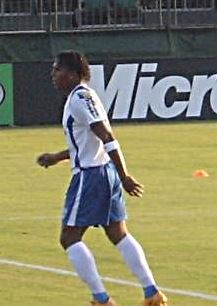 Carlos Pavon Picture Taken During a Game Warm Up in 2008